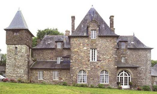 Façade est du château de Pont-Muzard